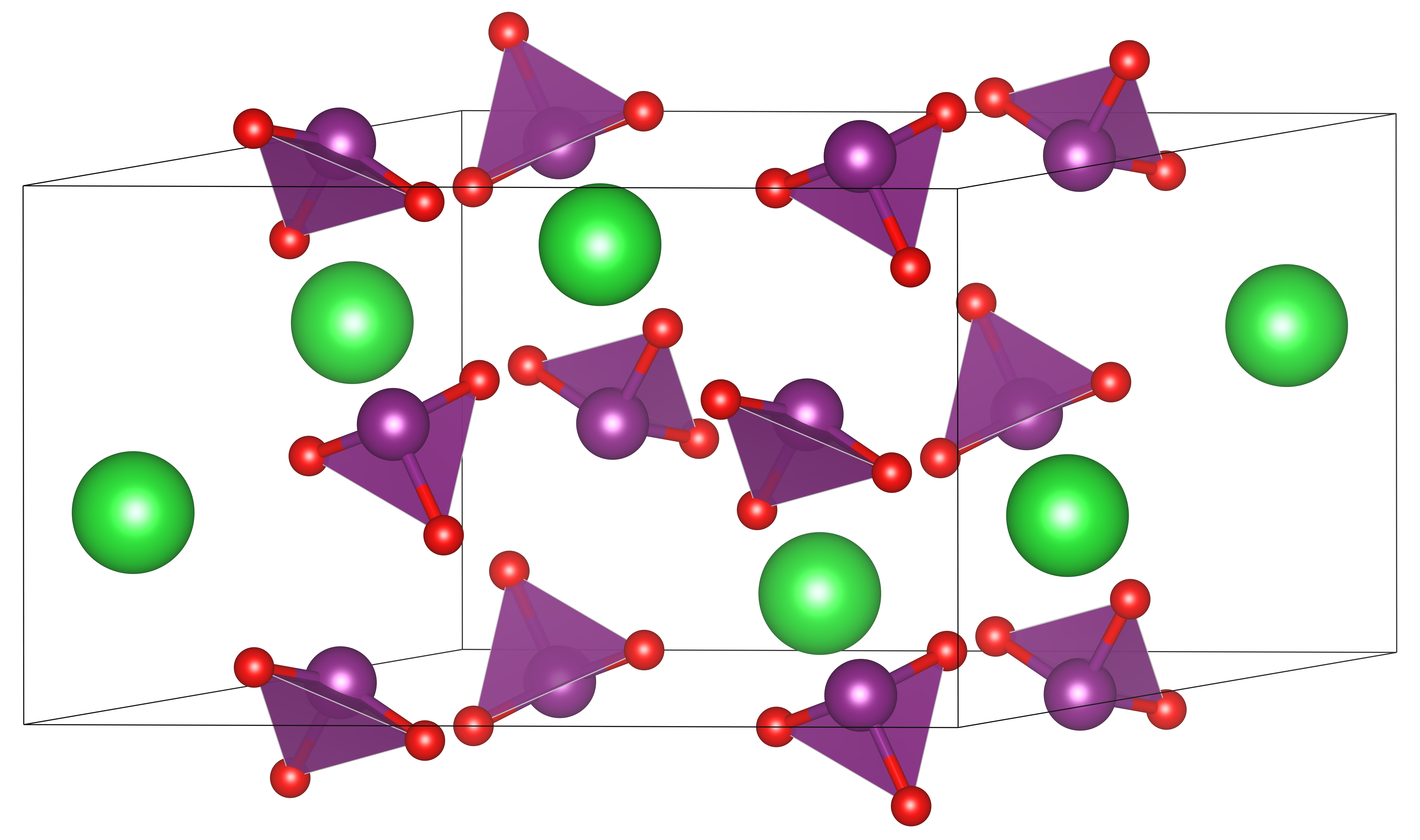 Crystal structure of α-barium diiodate (Ba(IO3)2). Created with VESTA. Source of crystal structure: Václav Petříček, Karel Malý, Bohumil Kratochvíl, Jana Podlahová, Josef Loub (1980). "Barium diiodate". Acta Crystallographica Section B B36: 2130–2132.